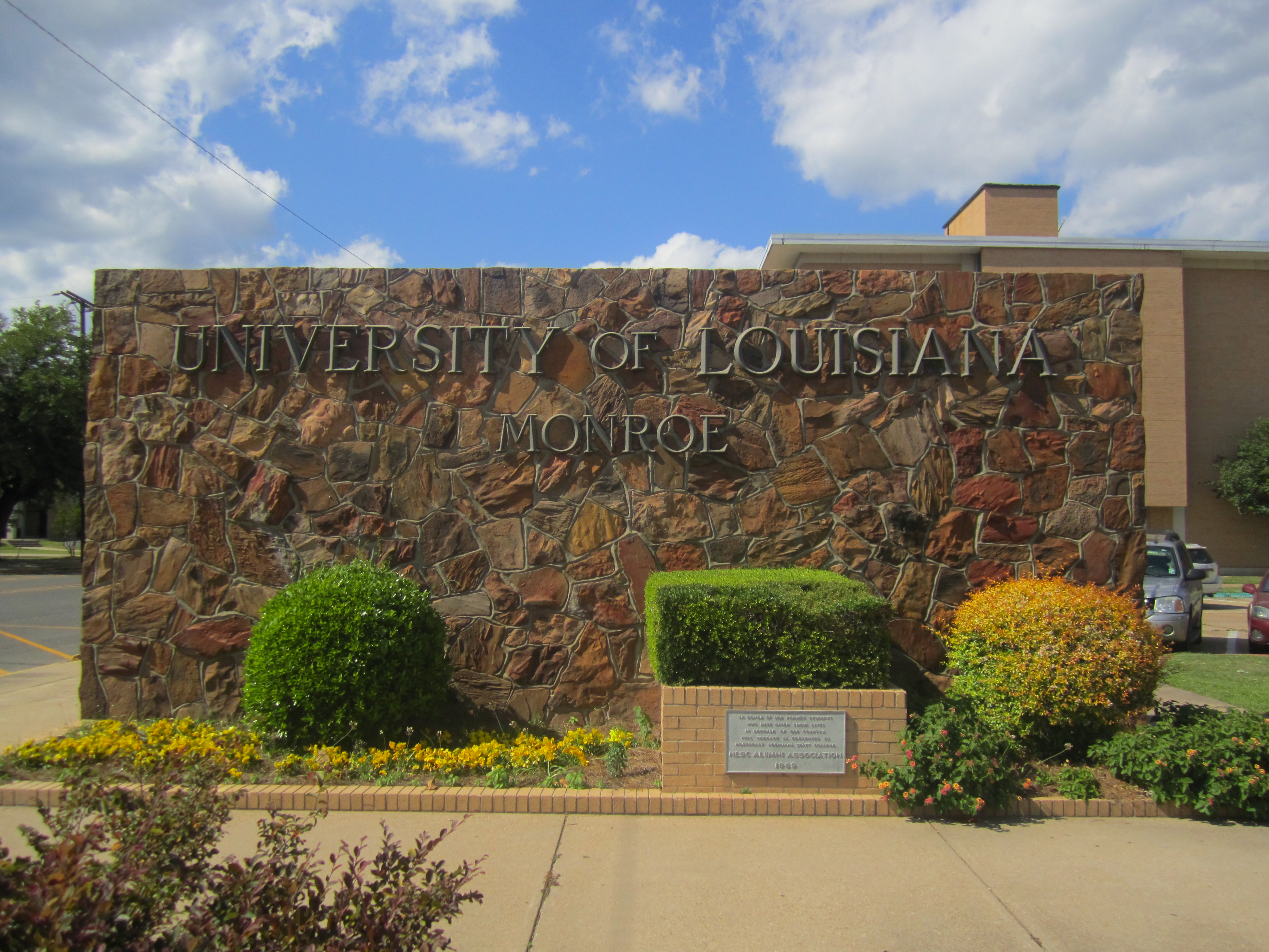 I took photo in Monroe, LA, with Canon camera. It is the ULM sign.